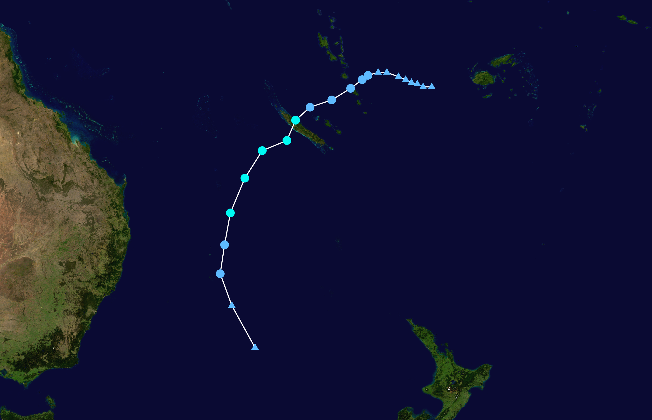 Track map of Tropical Cyclone Innis of the 2008-09 South Pacific cyclone season and the 2008-09 Australian region cyclone season. The points show the location of the storm at 6-hour intervals. The colour represents the storm's maximum sustained wind speeds as classified in the Saffir–Simpson scale (see below), and the shape of the data points represent the nature of the storm, according to the legend below. Saffir–Simpson scale Tropical depression≤38 mph≤62 km/h Category 3111–129 mph178–208 km/h Tropical storm39–73 mph63–118 km/h Category 4130–156 mph209–251 km/h Category 174–95 mph119–153 km/h Category 5≥157 mph≥252 km/h Category 296–110 mph154–177 km/h Unknown Storm type Tropical cyclone Subtropical cyclone Extratropical cyclone / Remnant low / Tropical disturbance / Monsoon depression